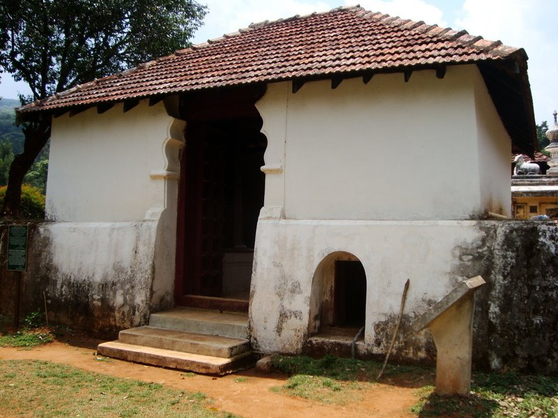 Nalknad Palace built by king , Dodda Veerarajendra and Linga Rajendra.